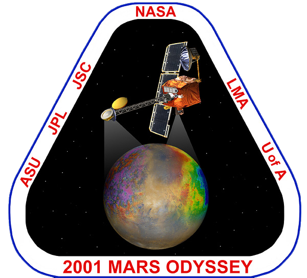 "The Mars Odyssey patch was designed by Corby Waste. Corby has also produced much of the artwork. of NASA spacecraft. For the Odyssey patch, Corby decided to create a “science logo.” In all the artwork Corby was doing for the Odyssey mission, the spacecraft was just seen hovering over Mars. He wanted to create a logo depicting the Odyssey instruments “in action.” On the right side of Mars, the Thermal Imaging System (THEMIS) instrument is taking infrared data. On the left, the Gamma Ray Spectrometer (GRS) is taking gamma ray data. The shape of the logo was “invented” by Corby. “It was something I just like…not round, not square, it was something new.” Within the border of the logo are all the institutions involved with the Odyssey mission: Arizona State University, the Jet Propulsion Laboratory, Johnson Space Center, NASA, Lockheed Martin and The University of Arizona."